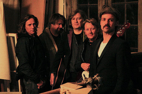 Band shot